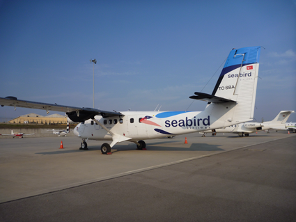 TC-SBA on wheels, in Istanbul Sabiha Gökçen Airport